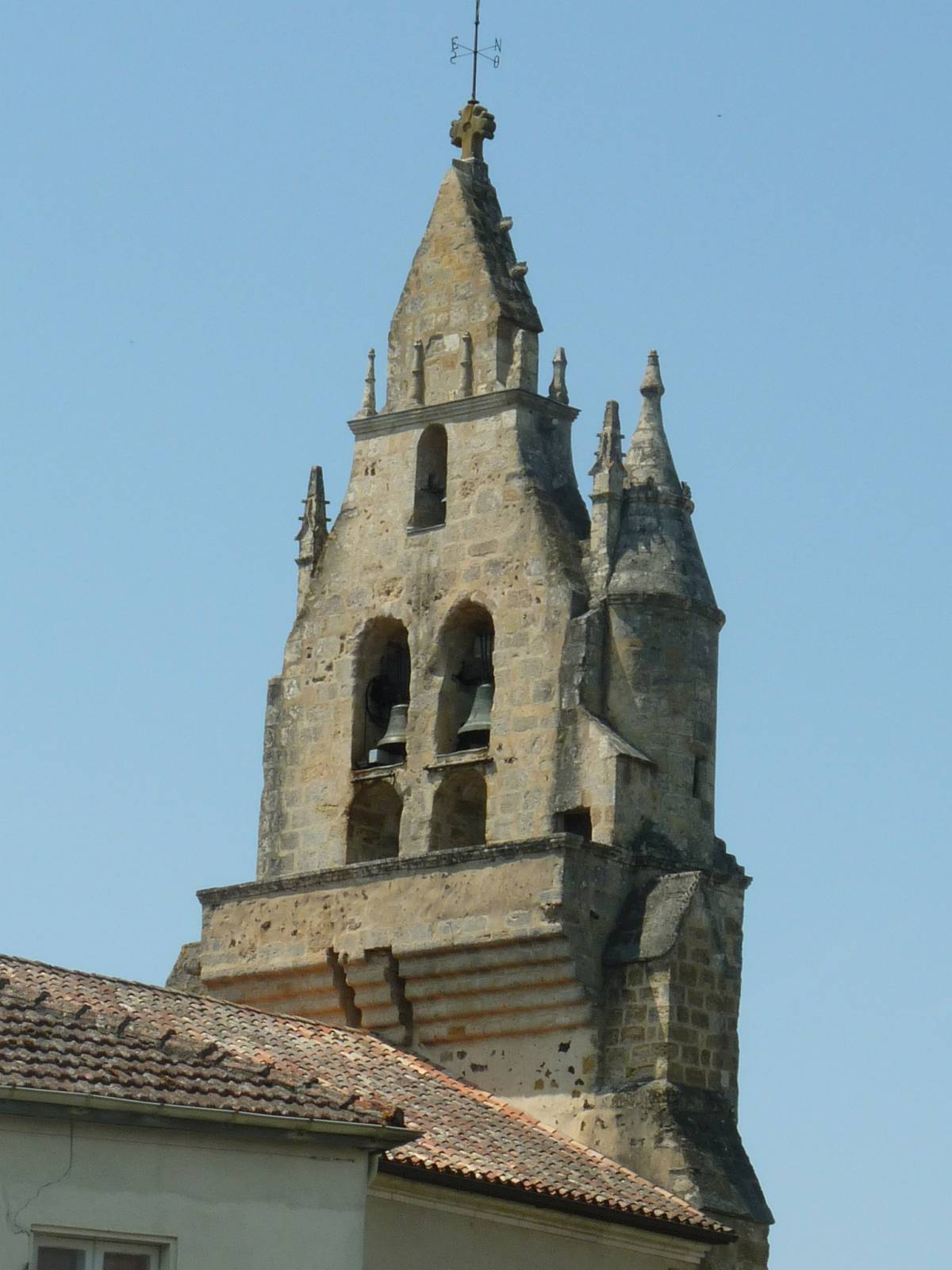 church